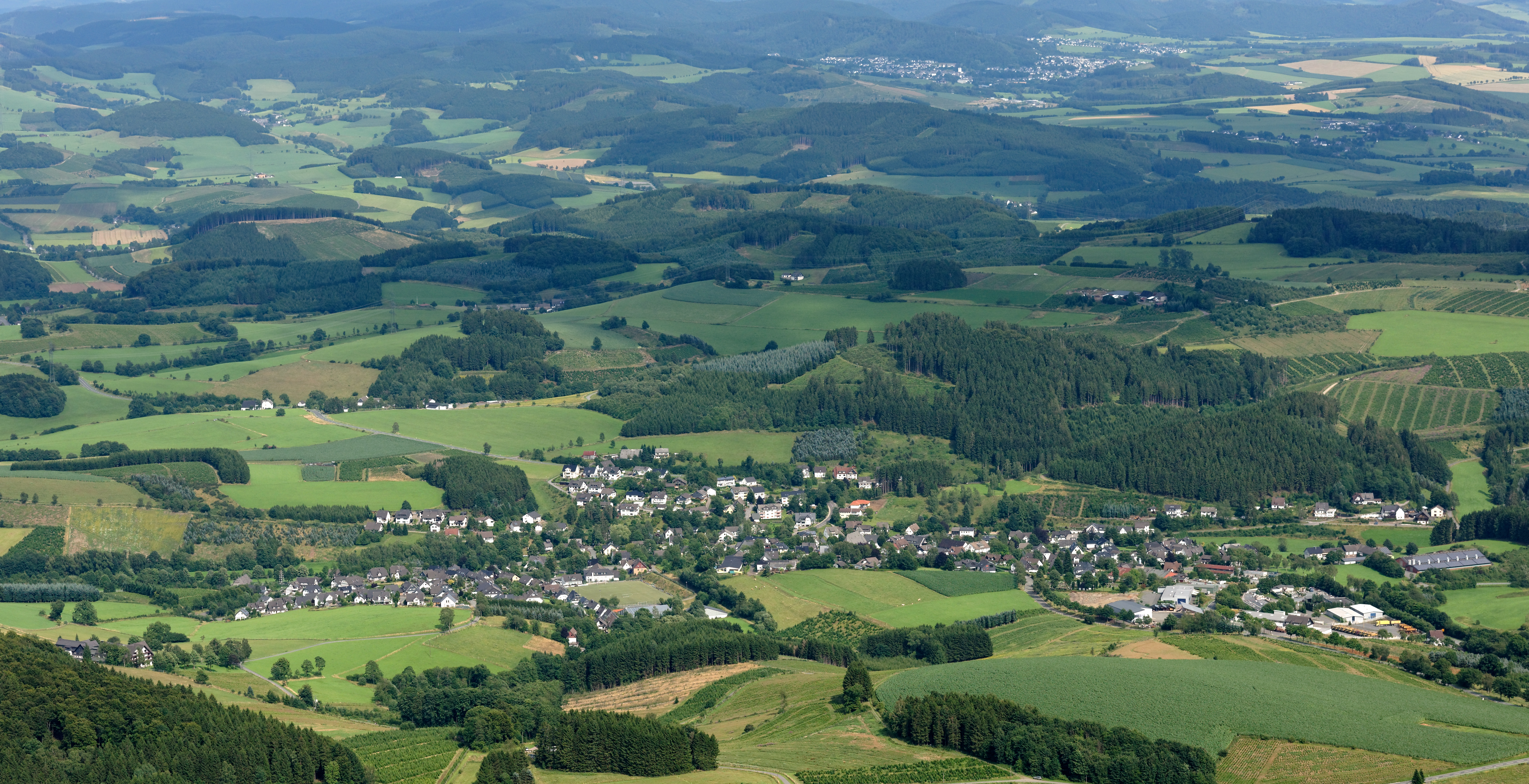 The making of this document was supported by the Community-Budget of Wikimedia Germany. Eslohe-Cobbenrode